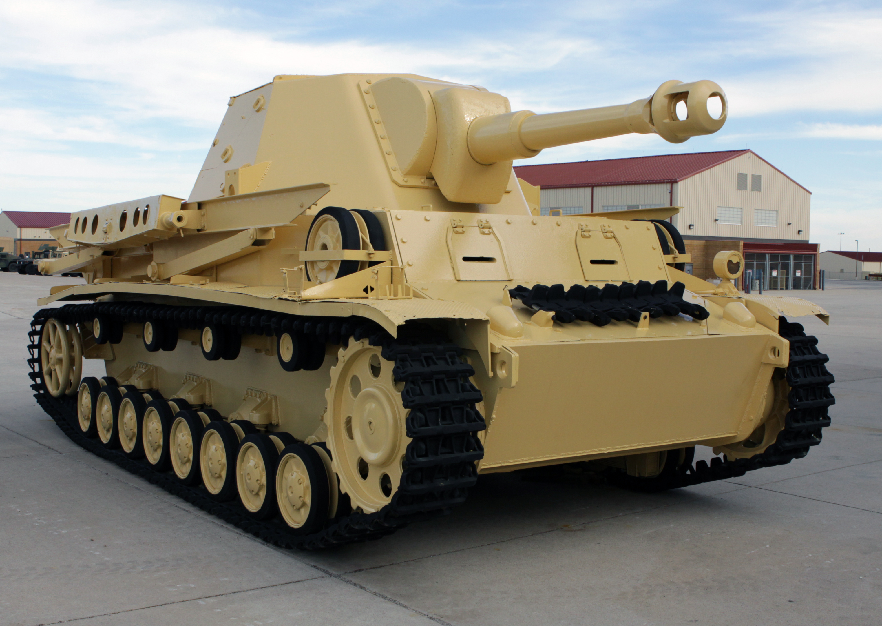 German Heuschrecke 10 ”Grasshopper“ 105 mm self-propelled light field howitzer features a detachable turret that allowed soldiers to position it on the ground like an armored pillbox. The artillery piece is displayed at the Army Field Artillery Museum at Fort Sill.